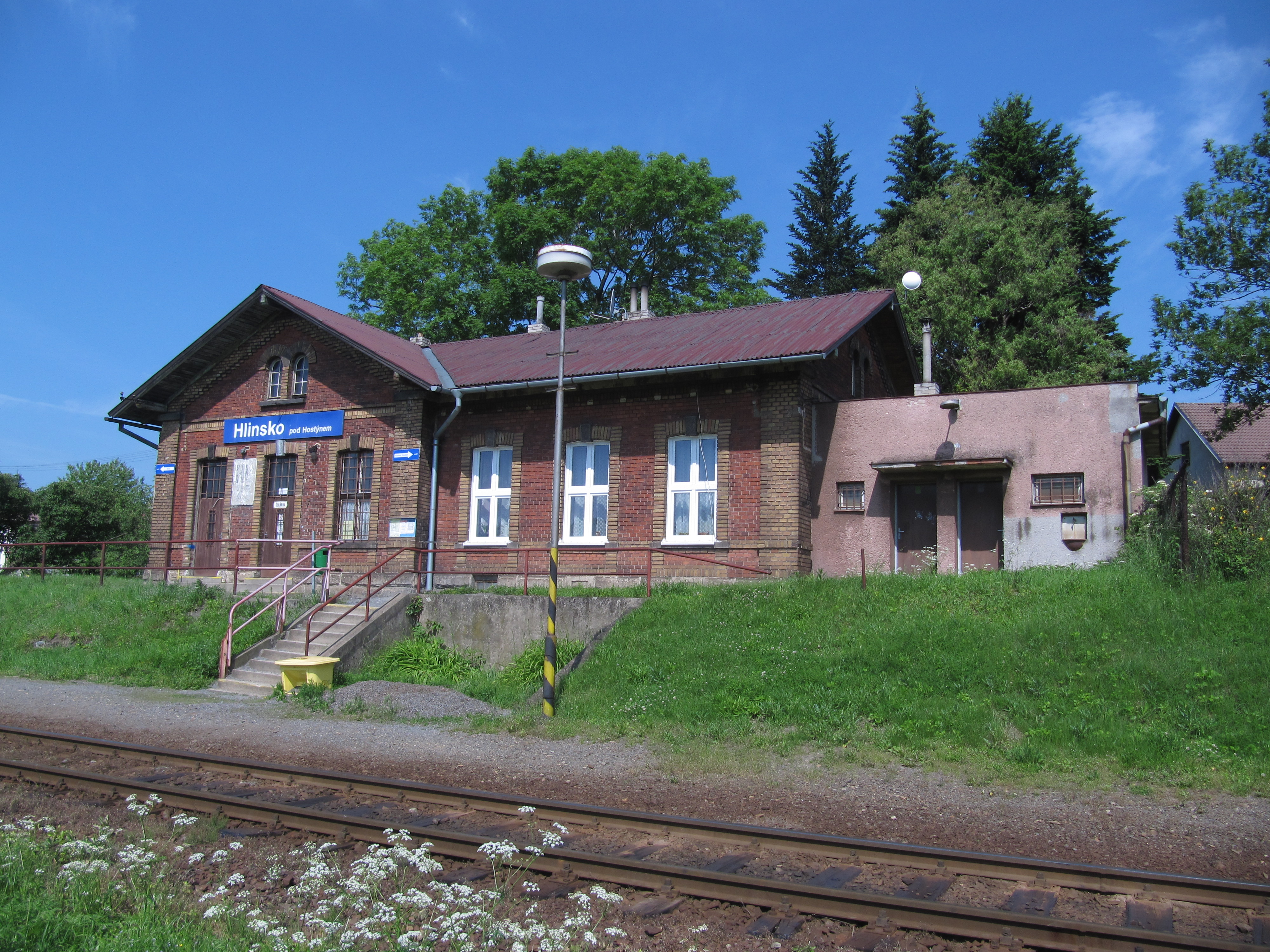 Bystřice pod Hostýnem, Kroměříž District, Czech Republic, part Hlinsko pod Hostýnem.